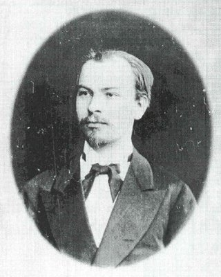 Friedrich Fromhold Martens (1845-1909), Russian diplomat, lawyer and expert in international law